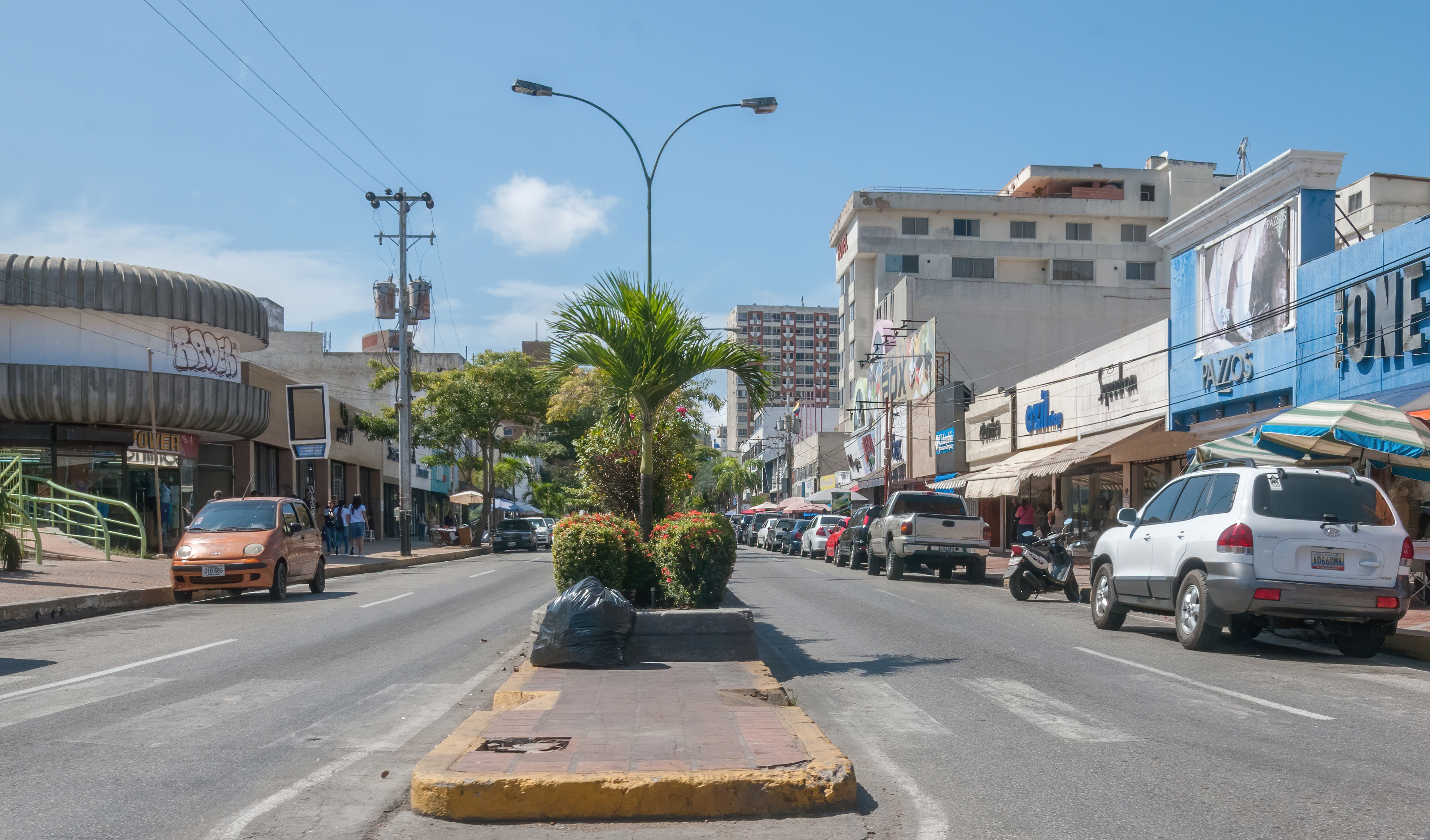 Santiago Mariño Avenue